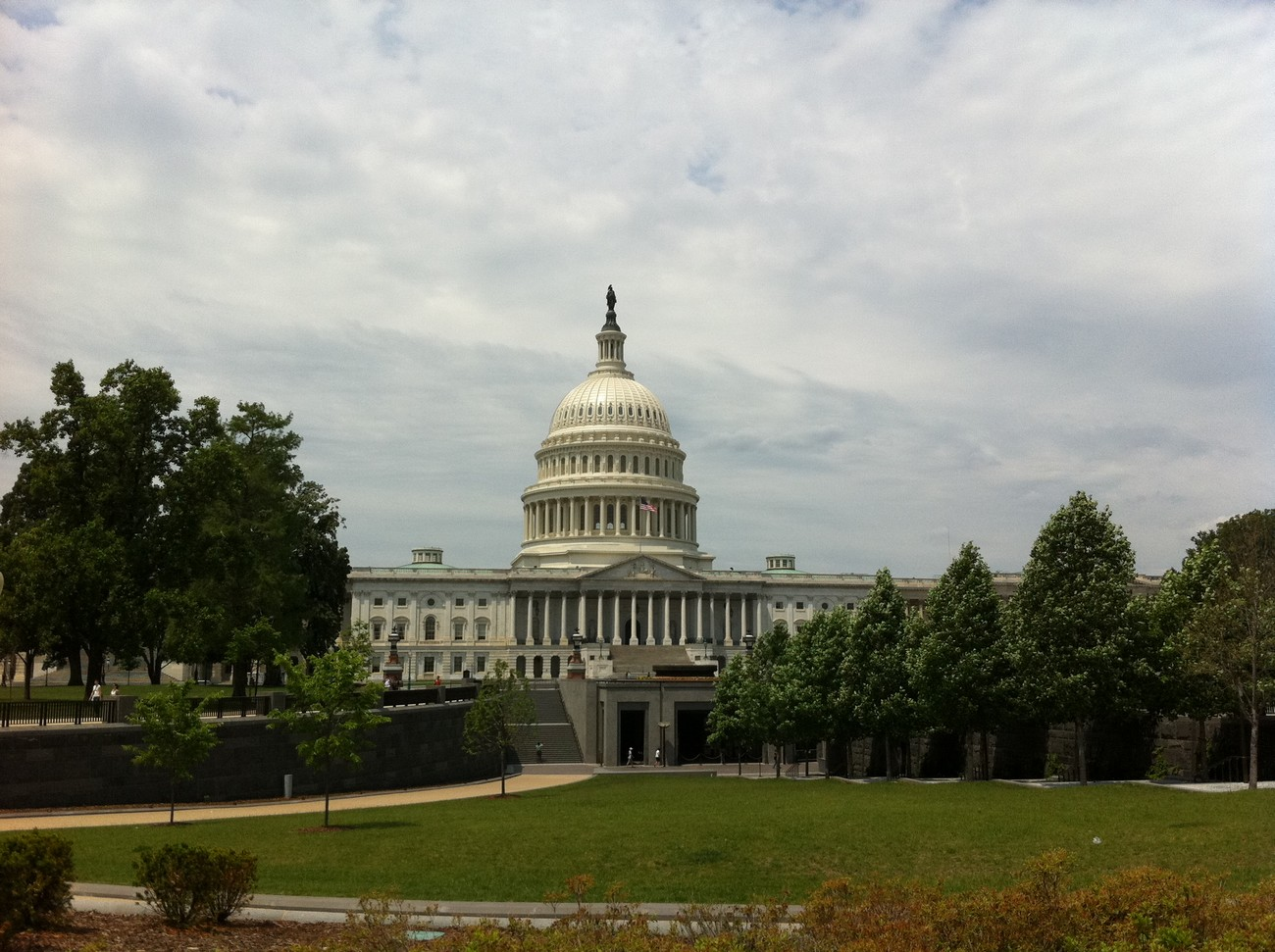 The US Congress in Washington DC.